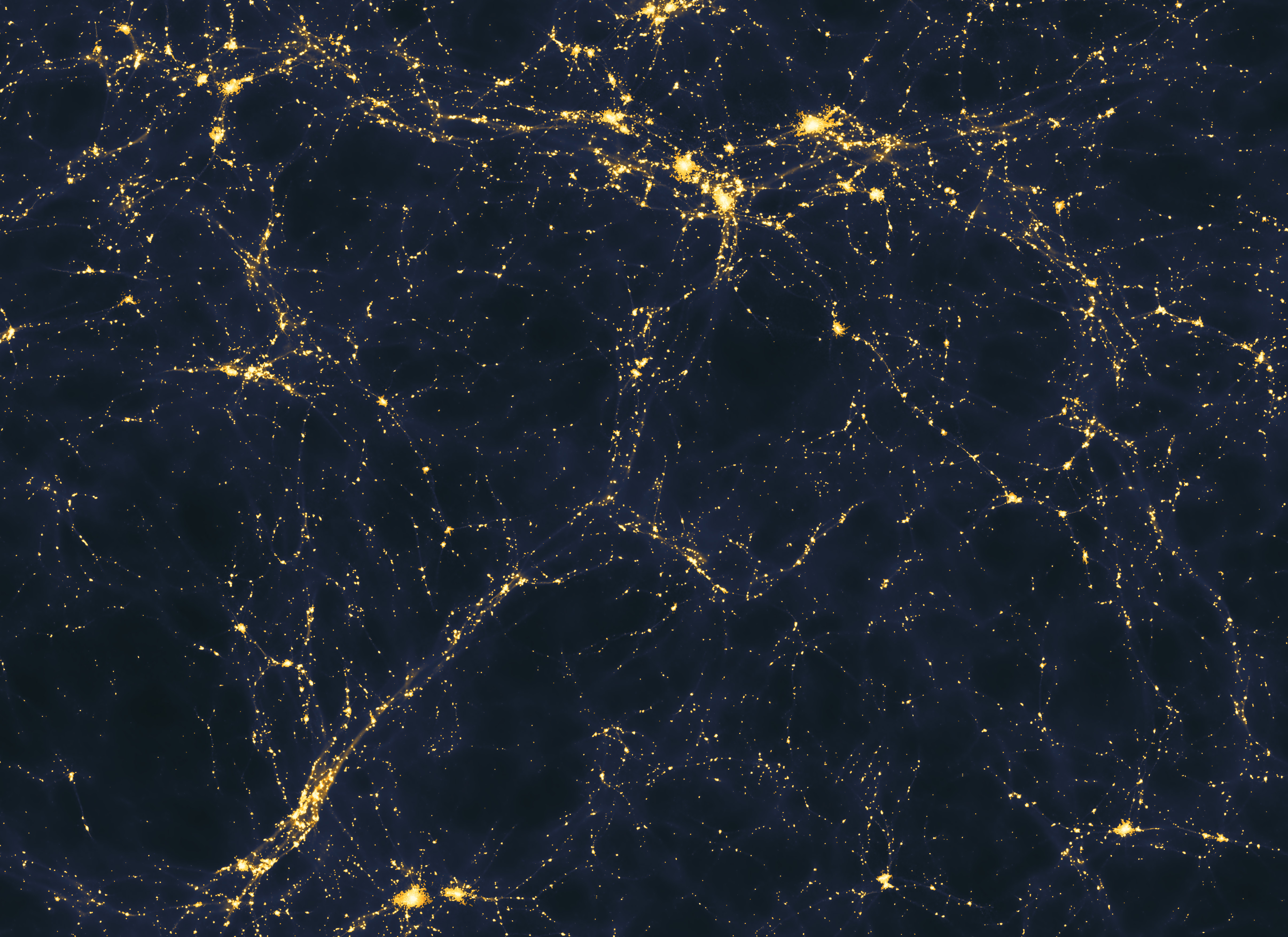 Original caption: "A computer model shows one scenario for how light is spread through the early universe on vast scales (more than 50 million light years across) (Credit: Andrew Pontzen/Fabio Governato)" Andrew Pontzen, Simeon Bird, Hiranya Peiris, Licia Verde, "Constraints on ionising photon production from the large-scale Lyman-alpha forest" (2014), arXiv:1407.6367 [astro-ph.CO].